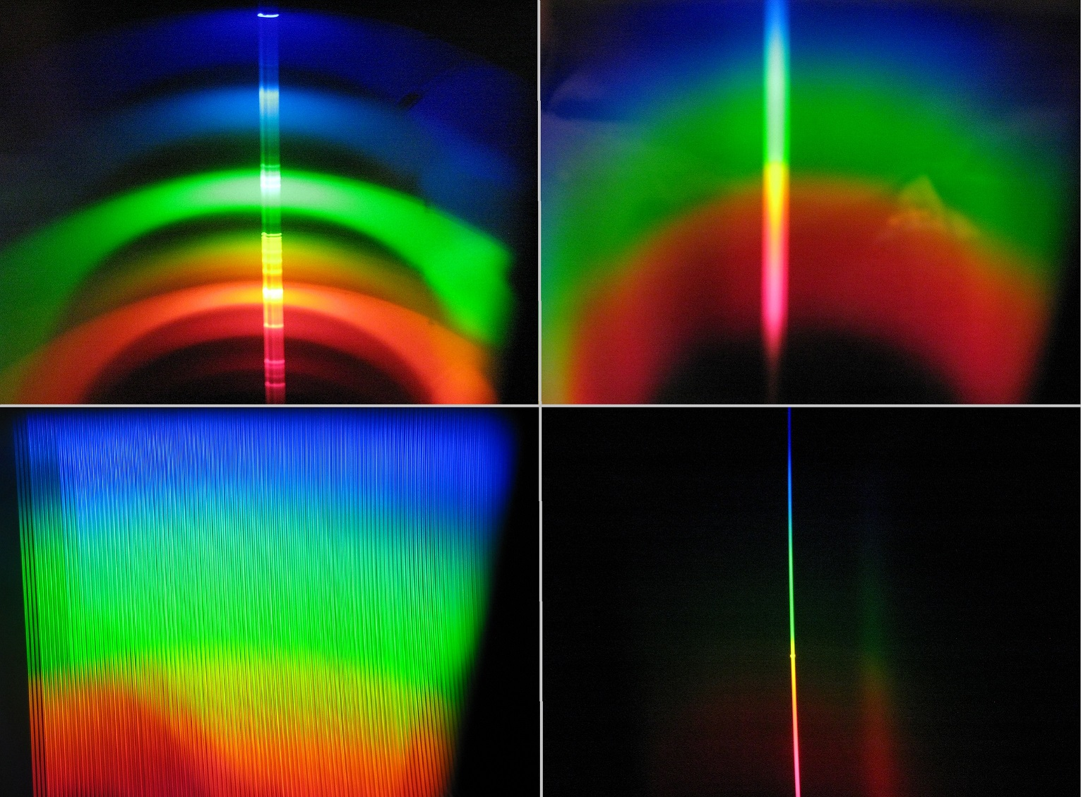 The spectra of various light sources as revealed in a reflection diffraction-grating. Clockwise from the upper left: Fluorescent lamp, incandescent bulb, candle flame, and white LED lighting. The helical, cool-white fluorescent-lamp produces a variety of spectral lines which are shown in the actual reflection of the lamp, running down the center. The incandescent bulb produces spectra indicative of a blackbody radiator. This is very similar to the candle flame, with the exception of the candle's strong line in the yellow (from the carbon). The LED lighting consists of a mixture of red, green and blue. Unlike single source-point lamps, the LED lighting contains multiple light-emitting diodes, producing many streaks of color on the grating. To photograph all colors in a single frame, the angular size of the light source needed to be very small, requiring that the camera be very close to the grating while the light source was rather far away. The closeness of the camera's convex lens to the grating produced the colorful, curved streaks to either side of the light source.